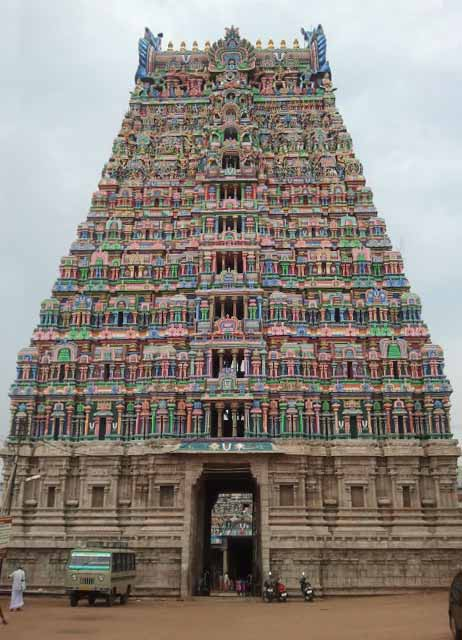 Mannargudi Sri Rajagopala Swami temple gopuram.